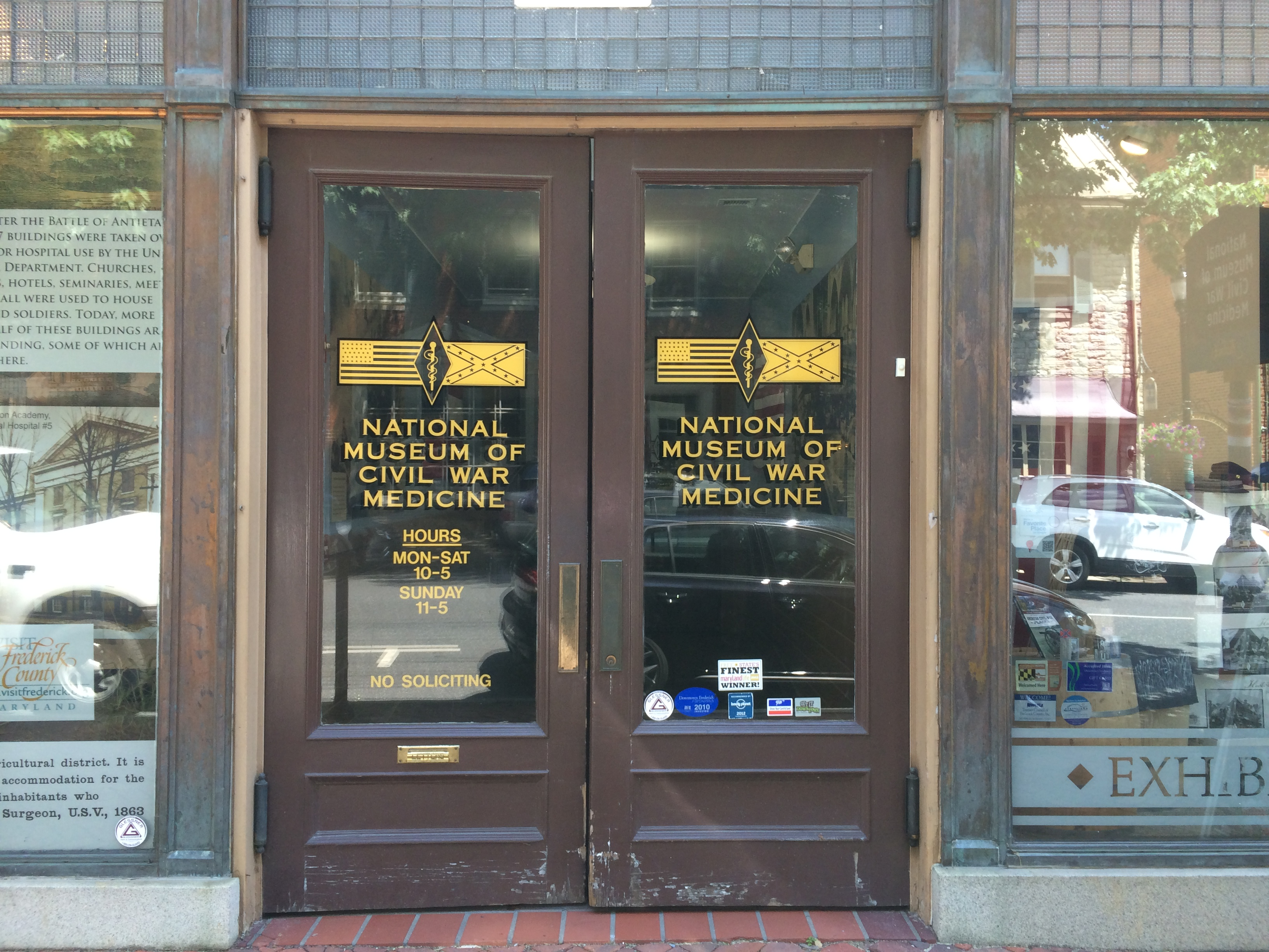 The entrance to the National Museum of Civil War Medicine in Frederick, Maryland